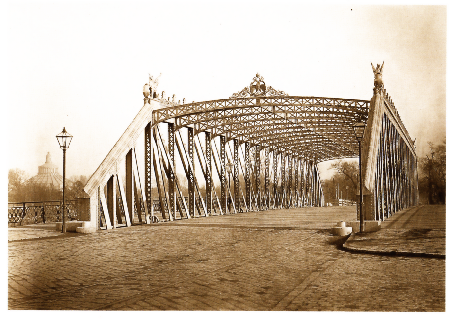 The Sophienbrücke (Sophie bridge) in Vienna